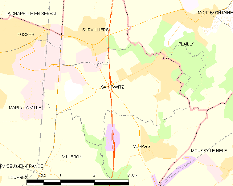 Map of French municipality Saint-Witz